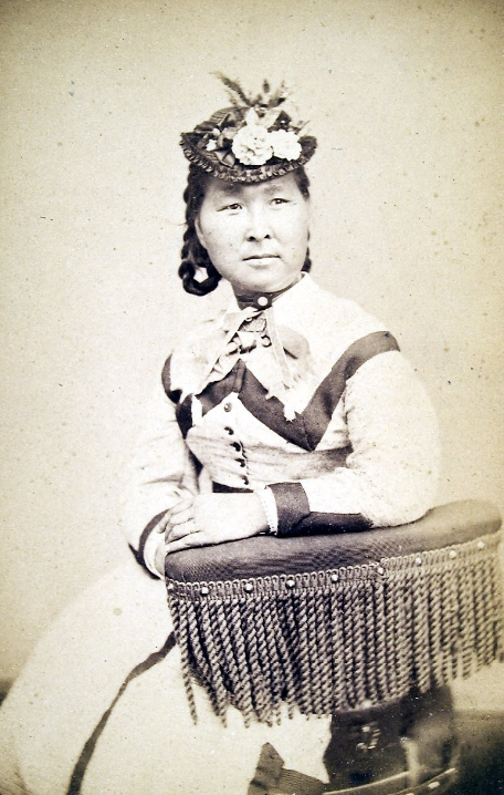 On reverse of card: "PHOTOGRAPHED BY / Giles Bishop / 22 State Street / NEW LONDON / Conn."Tookoolito and her husband Ebierbing had a long association with whalers and explorers, including Groton whaling master Sidney O. Budington and Arctic explorer Charles Francis Hall. Captain Budington, a native of Groton, commanded the bark George Henry of New London during one of Hall's expeditions in 1860–1862, and was master of the vessel Polaris for Hall's ill-fated last polar expedition in 1871. Both Tookoolito (sometimes called "Hannah" by the whalers) and Ebierbing were interpreters for Hall. They were brought to New London and Groton several times by Hall and Budington. Tookoolito and her three children are buried in Starr Cemetery, Groton.